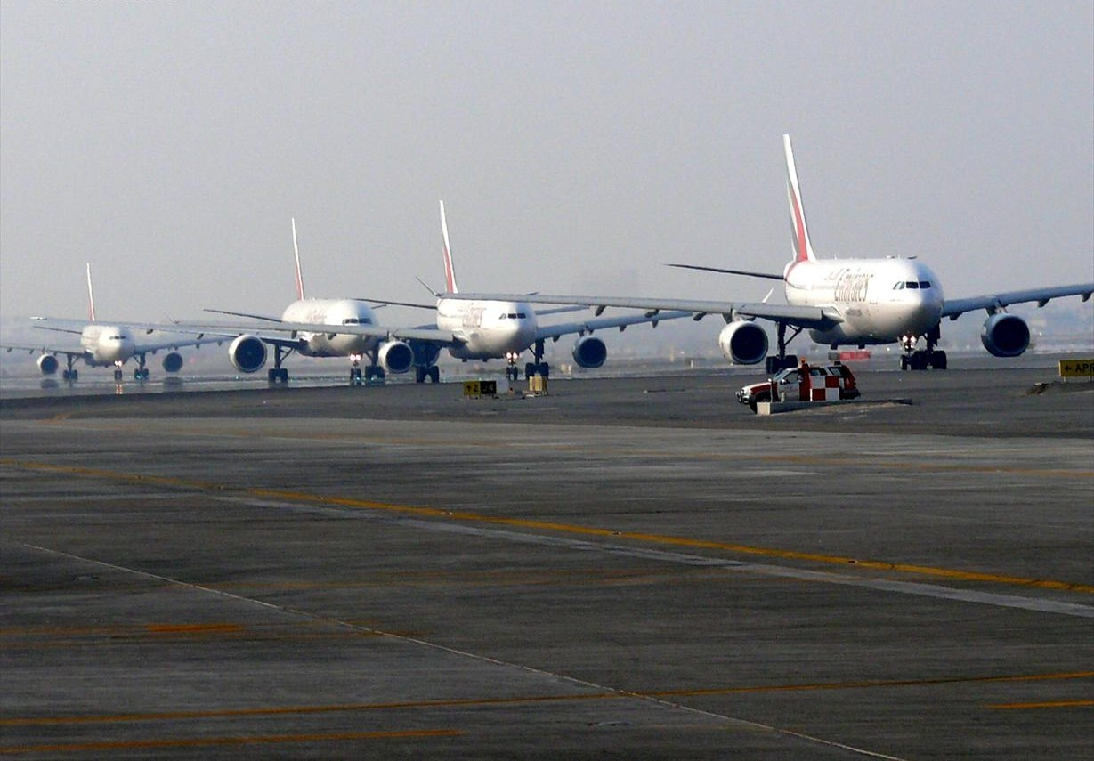 This is a photo showing several airplanes taxiing on the runway at Dubai International Airport in Dubai, United Arab Emirates on 13 November 2007.